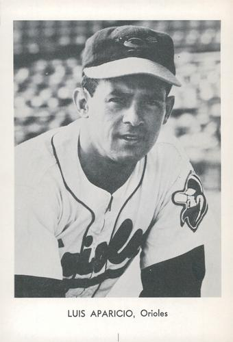 A promotional image of Baltimore Orioles player Luis Aparicio.